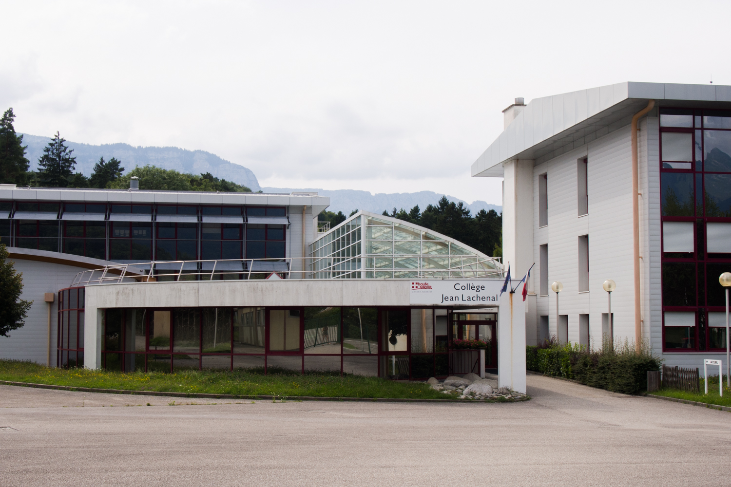 Sight of the collège Jean Lachenal middle school of Faverges, in Haute-Savoie, France.